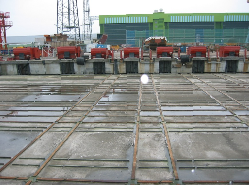 Picture of heavy load rails on shipliftplatform at Volkswerft in Stralsund (Germany) Picture is taken by myself (J.A.M. Claassen)